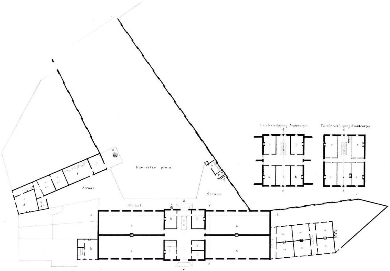 W. de Kruyff (architect). Willem III-Kazerne, Vlissingen, plan. 1850 (?).